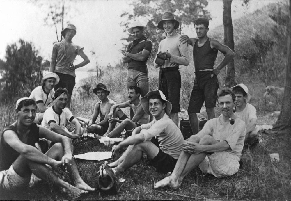 Picnic on the riverbank at St. Lucia, Brisbane, Queensland, 1908. Picture Queensland Image Number 66719. It was belived to have been of an Australia Day celebration, but the year makes this unlikely, as Queensland did not celebrate Australia Day as such until later.